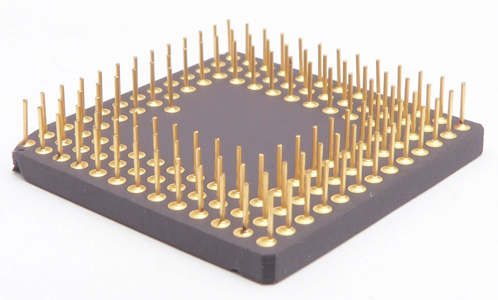 The pin grid array at the bottom of a Motorola XC68020 (prototype of the MC68020)